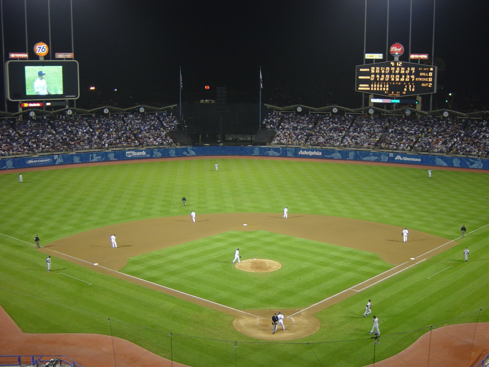 Taken during the Giants v Dodgers game on September 20th, 2002.